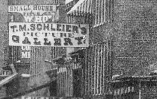 Detail of an 1869 photograph of Gay Street in Knoxville, Tennessee, United States, showing the gallery and studio of photographer T.M. Schleier (1832–1908)